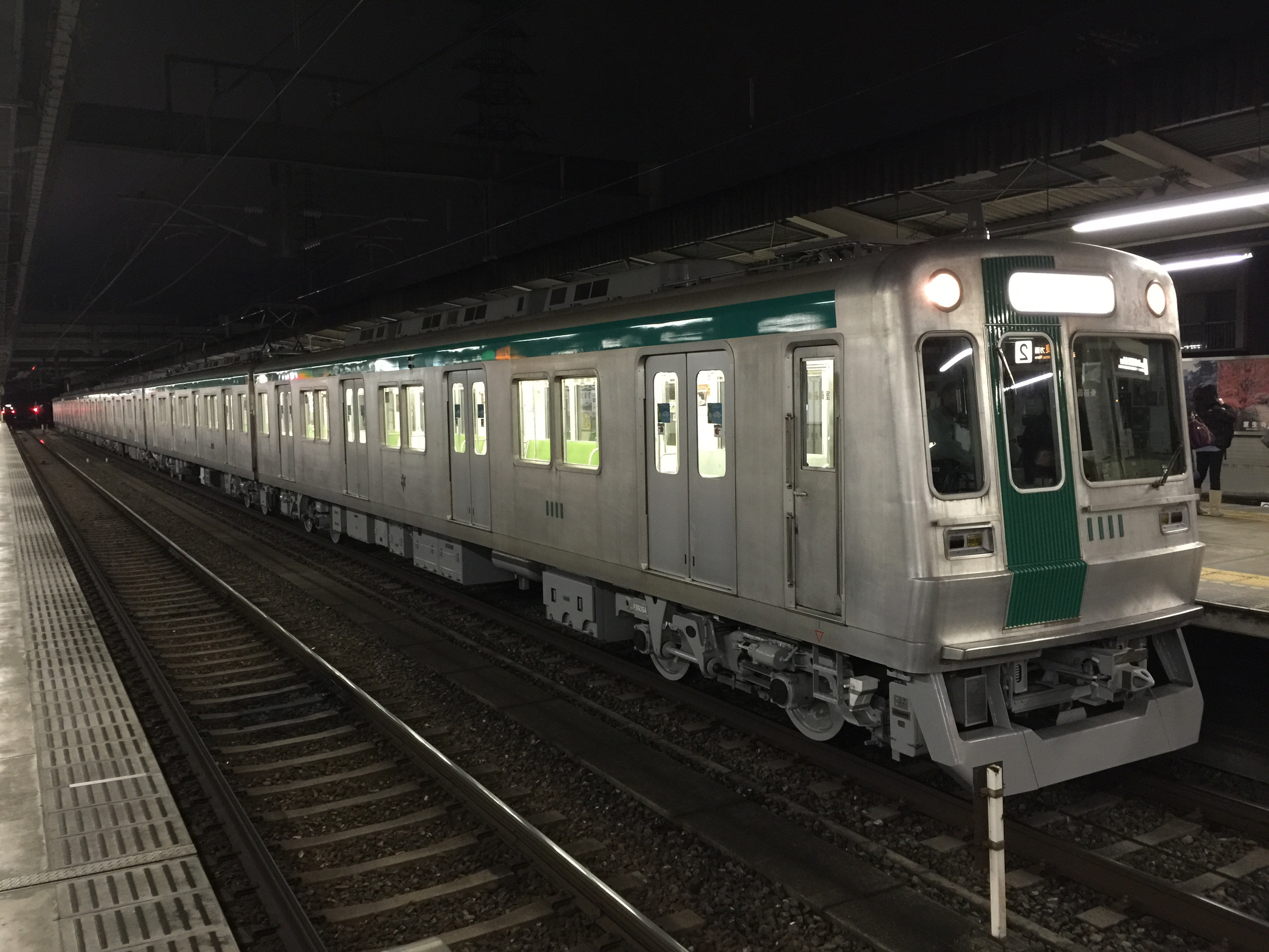 Kyoto Subway 10A series unit 11 West side at Takeda station. During its trial period after the conversion to VVVF